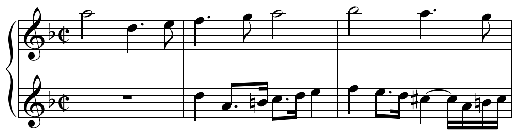 Image of the subject of the fugue, I created this picture myself with my own software. From Bach's Art of the Fugue, Contrapunctus VII.